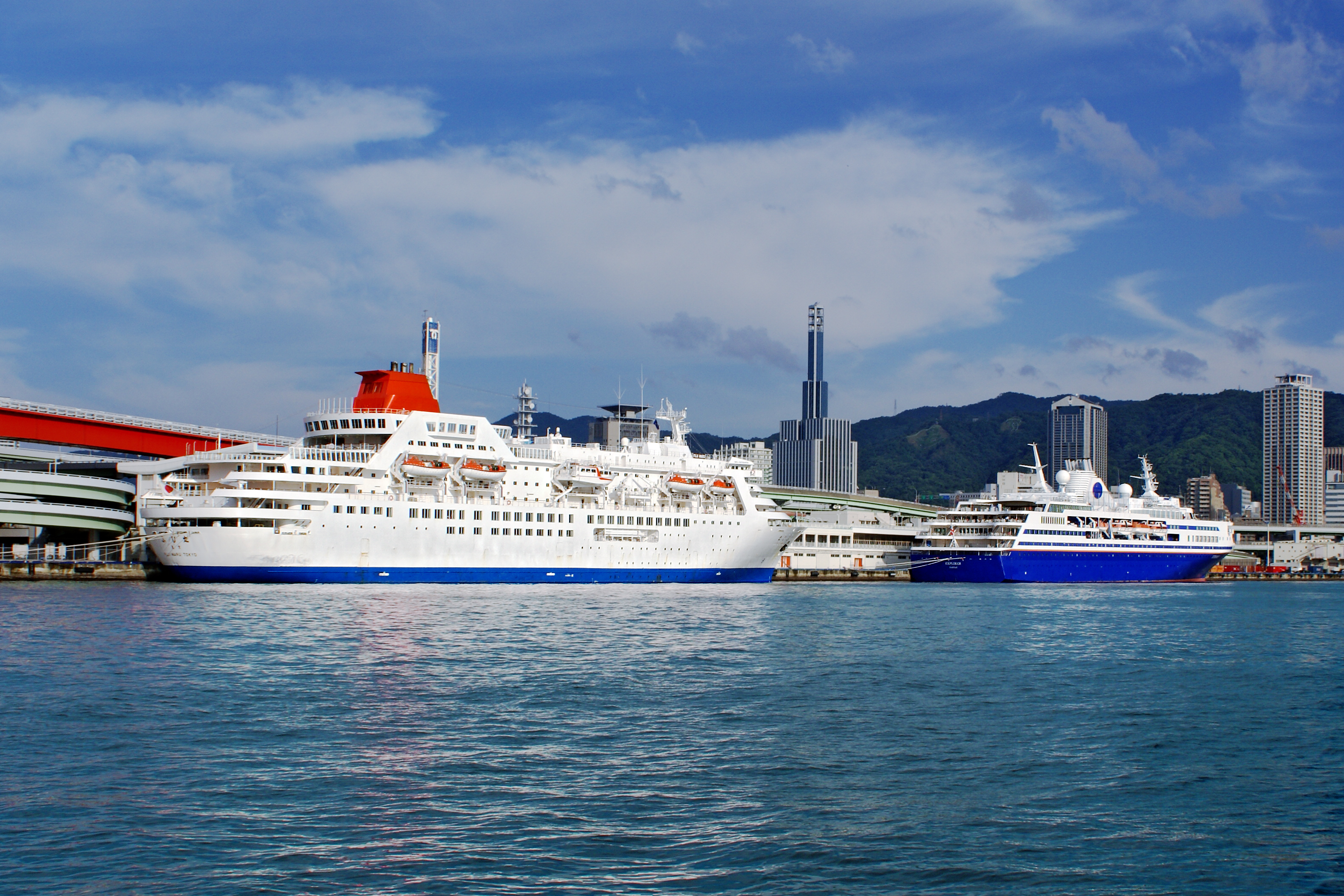 "Fujimaru" and "Explorer" who anchors at "Kobe Port Terminal" of the Kobe harbor ( Kobe, Hyogo prefecture, Japan)